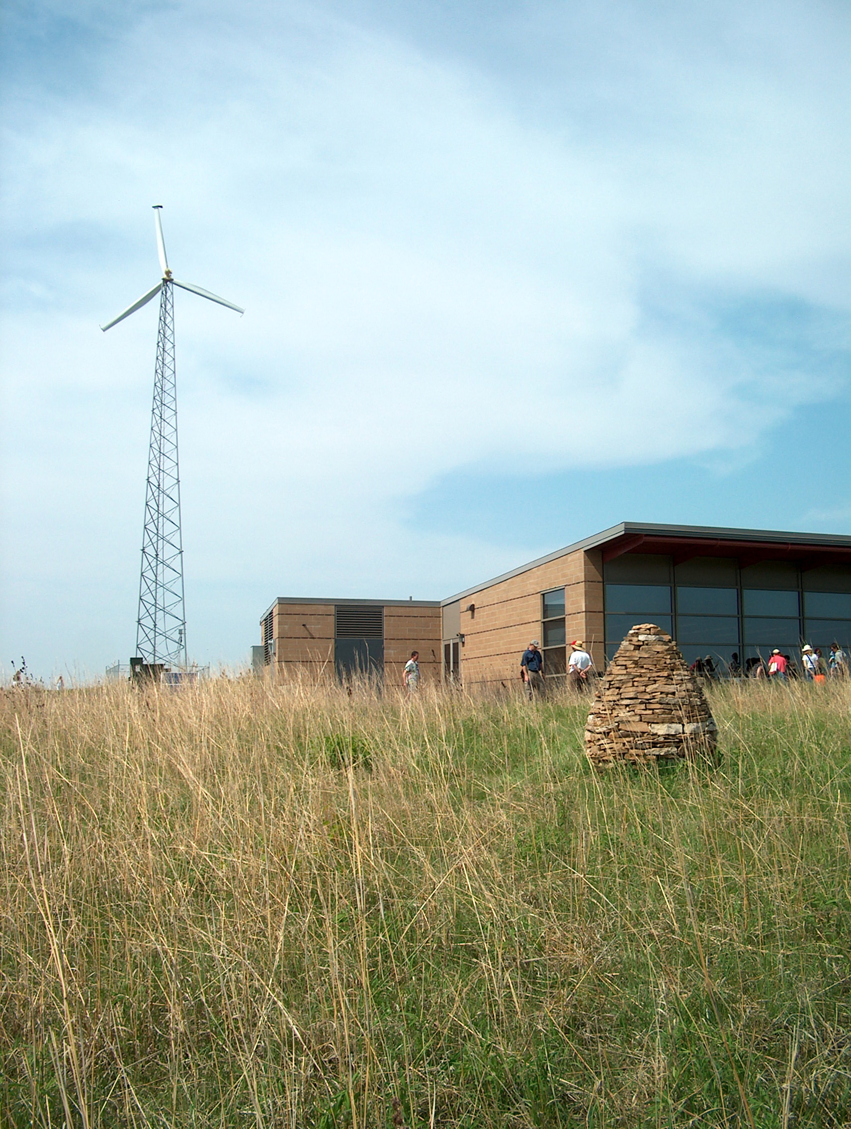 The windmill powers the building you see...they haven't received an electric bill for three months. The interesting rock formation in the foreground is a cairn built by artist Andy Goldsworthy on the CERA site. There are two just like it, one on each coast of the United States, built on beaches during low tide. When the high tide rolls in, it covers the cairns. Eventually, once the prairie grasses at CERA reach native potential, they too will cover the cairn each summer, to reveal it again in the fall and winter.